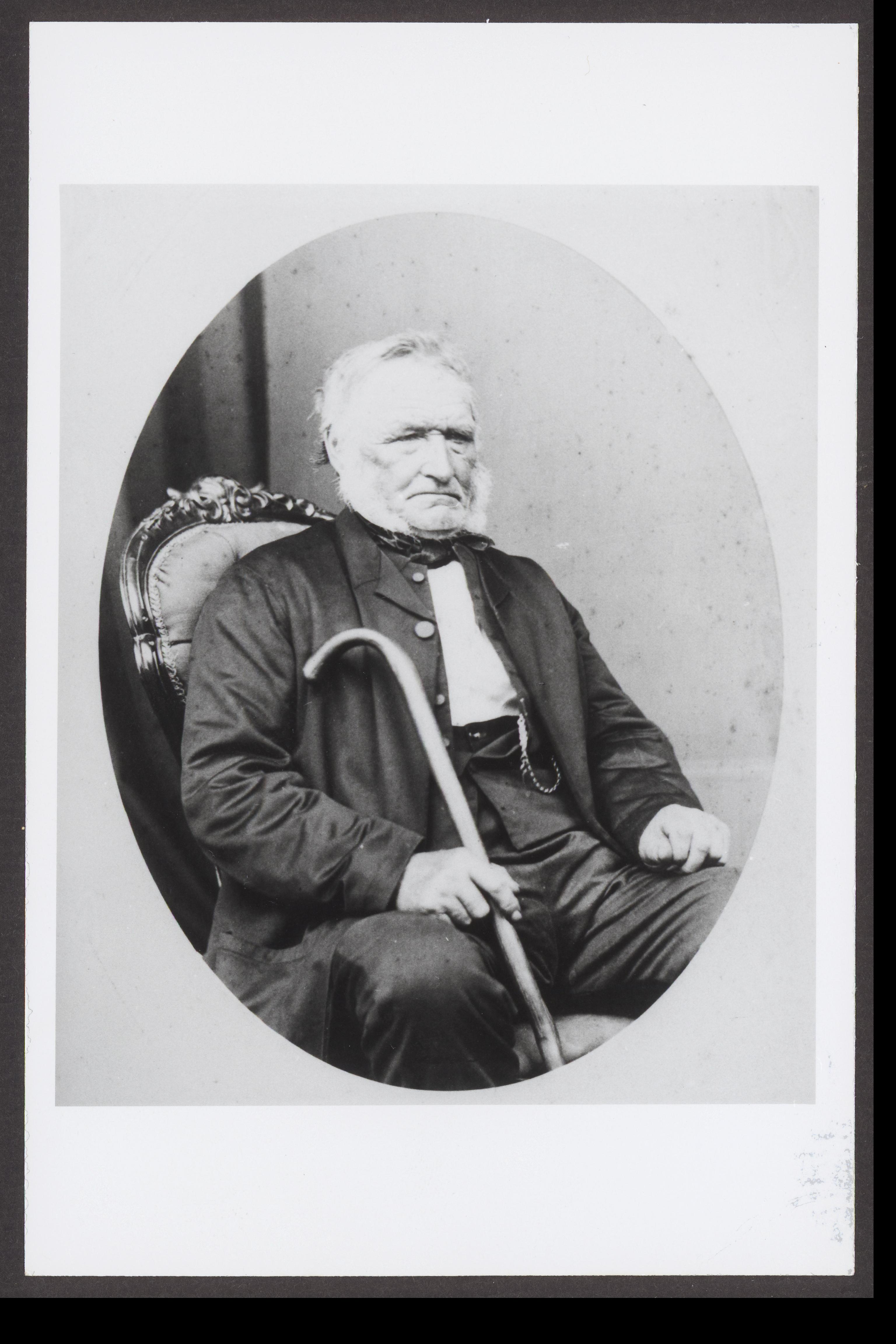 Alexander Watherston arrived on the "Hooghly", 17 June 1839. He was in charge of the South Australian Company's bull, the first that they imported, on the journey. He later lived in Port Lincoln, became the owner of Louth Island and worked as an overseer for the Road Board. Died April 1887 - State library of South Australia B29346